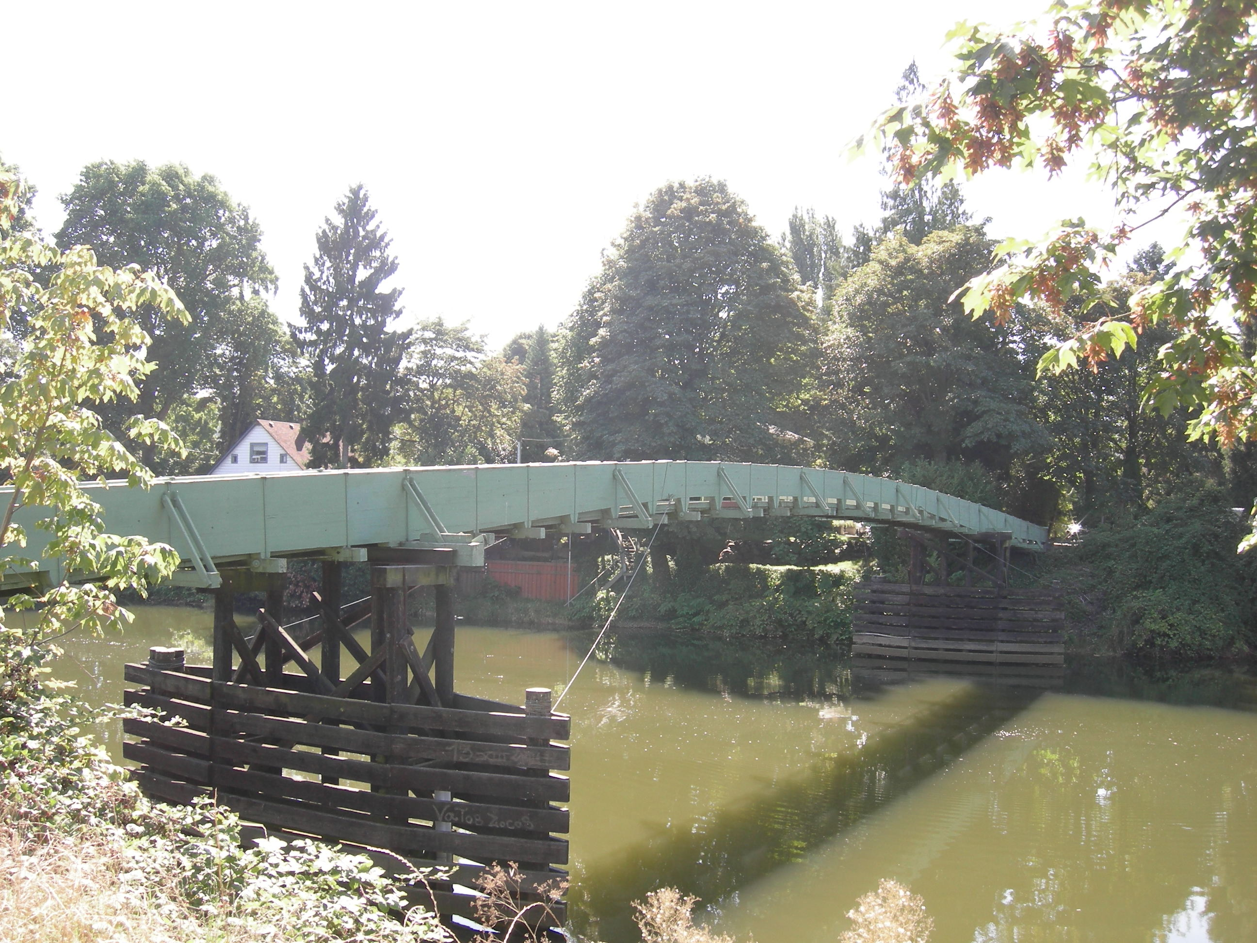 119th Street footbridge over the upper portion of the Duwamish River, Tukwila, Washington.